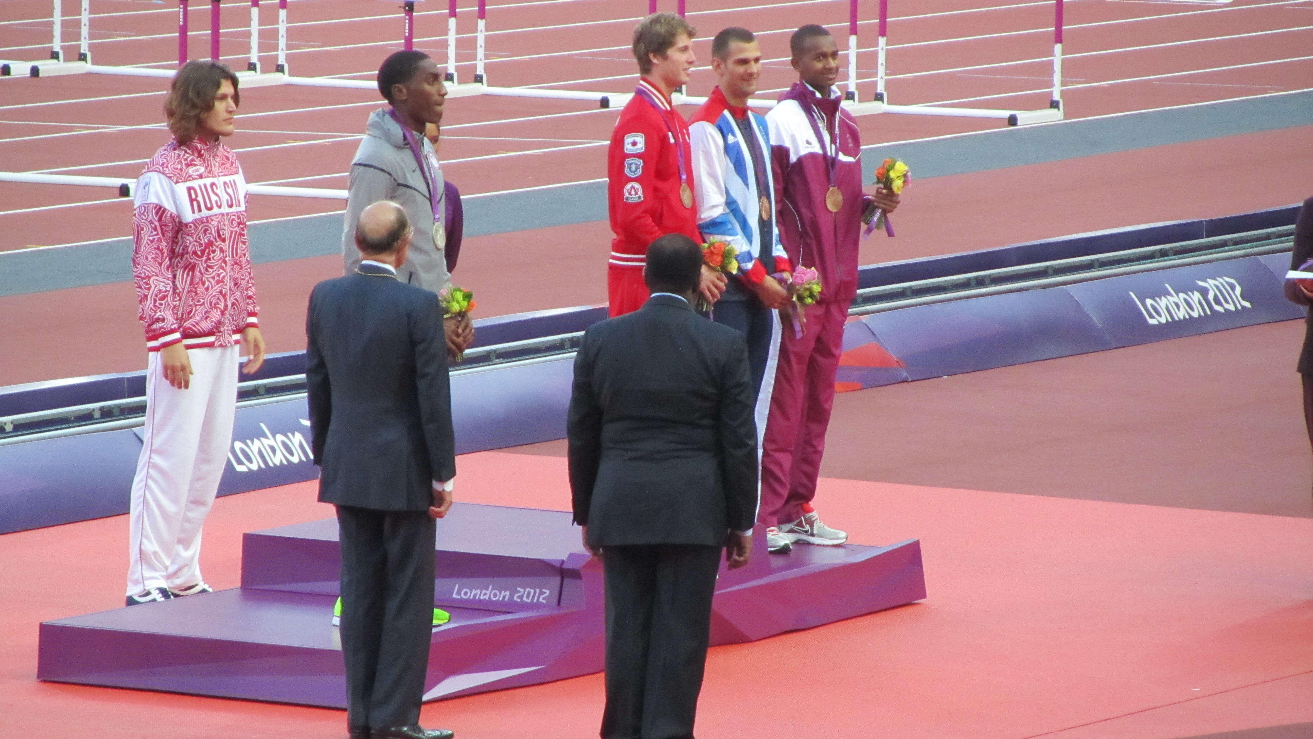 There were three bronze medalists: Derek Drouin (Canada - in the red tracksuit); Robert Grabarz (Great Britain and Northern Ireland - in the blue and white tracksuit) and Mutaz Essa Barshim (Qatar - in the purple and white tracksuit). Erik Kynard, Jr. (USA - grey and black tracksuit) won silver and Ivan Ukhov (Russia) won gold.